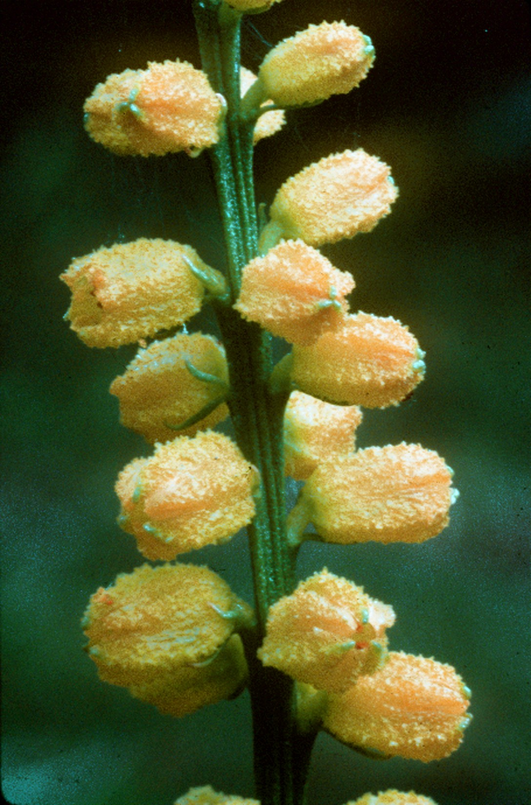 Golden Colicroot. Family Liliaceae. Flowers.